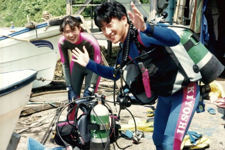 FanDivers